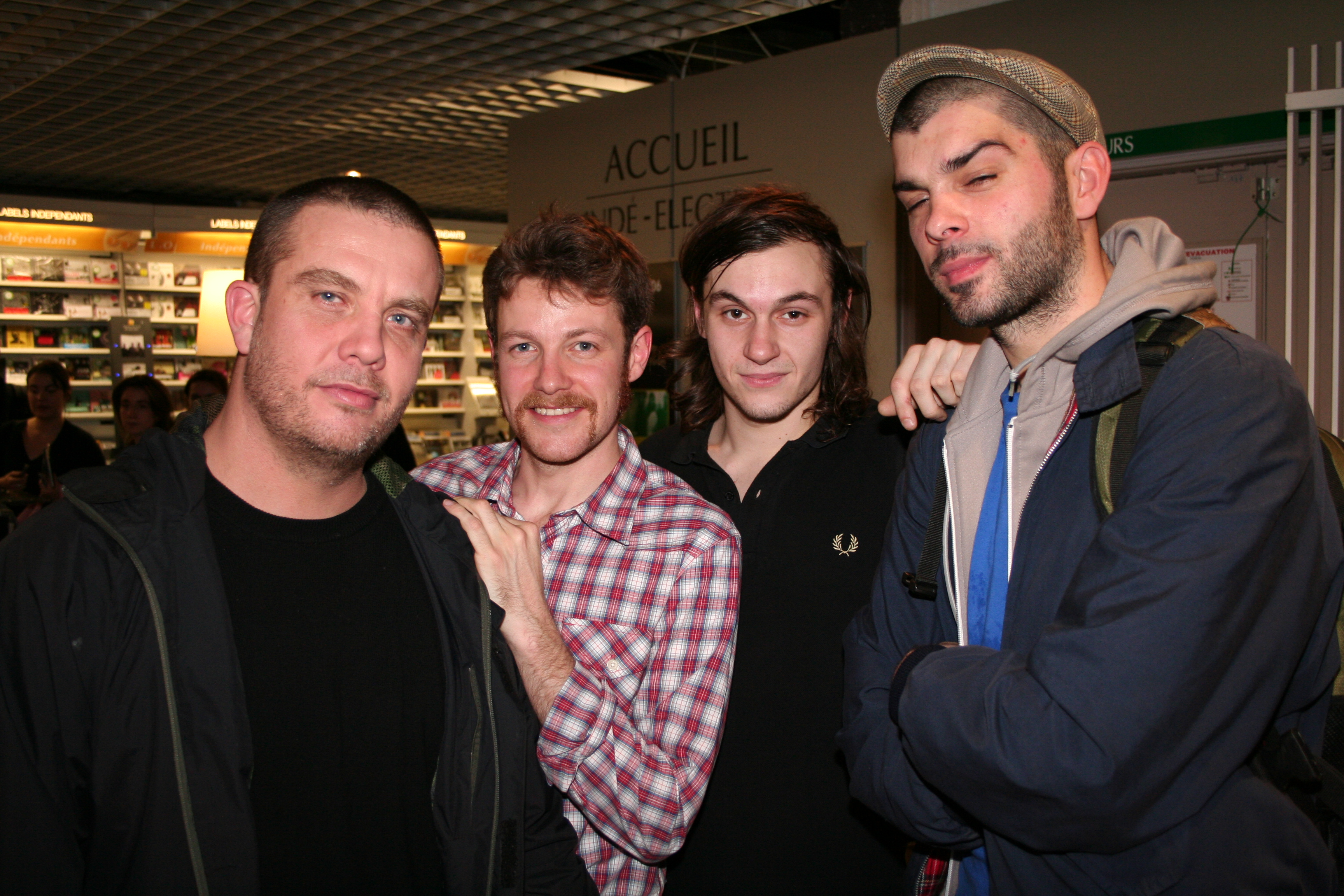 Show-case with Birdy Nam Nam at Fnac des Halles (Paris, France).